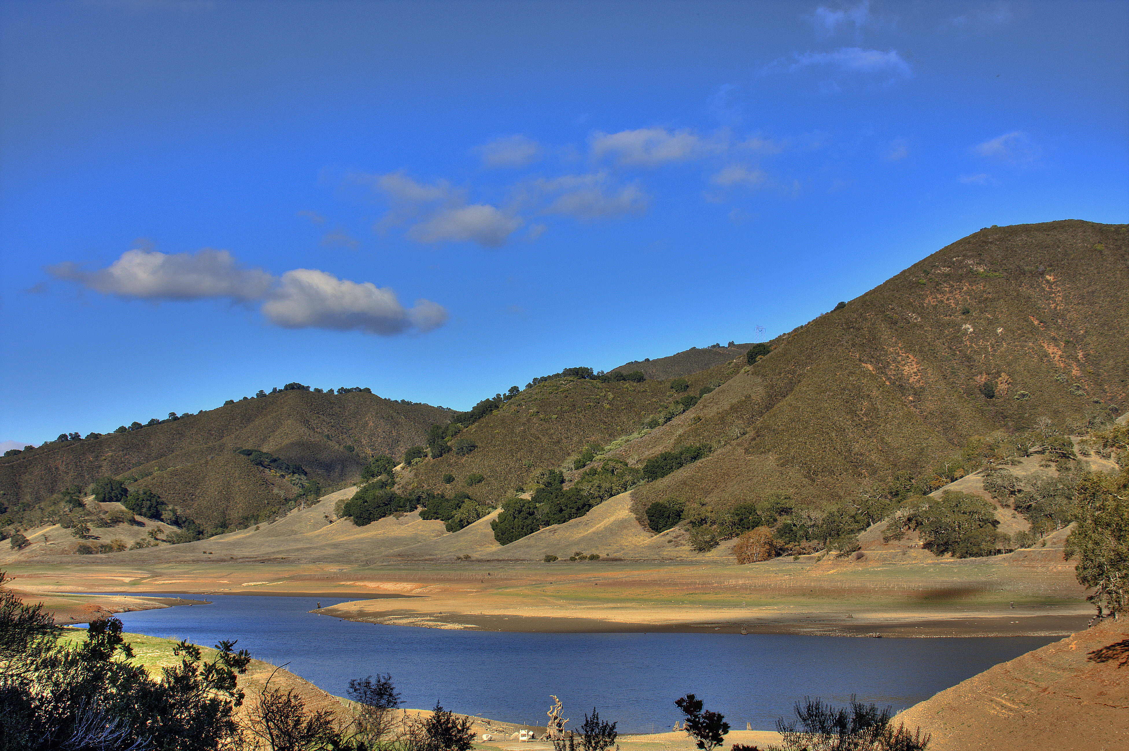 Uvas Reservoir: the lake is still low, taken with my Canon 40D and 28-135mm USM lens.